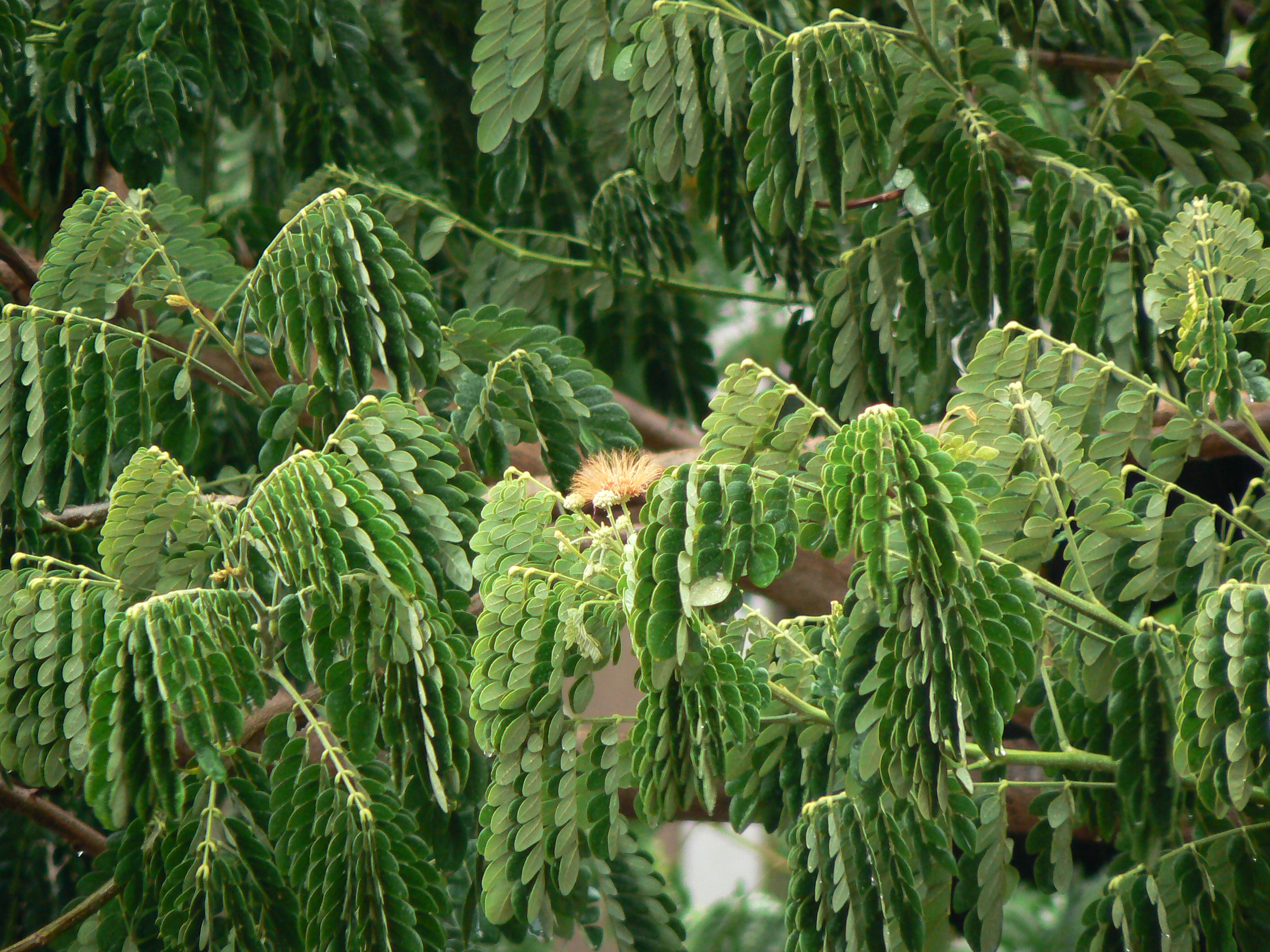 Fabaceae (pea, or legume family) » Samanea saman sah-MAN-nee-uh -- from the vernacular name of this plant sah-MAN -- saman is a South American plant name for the plant commonly known as: cow tamarind, coco tamarind, french tamarind, genisaro, monkeypod, monkey-pod tree, porrain tree, rain tree, saman tree, zaman • Bengali: বিলাতি শিরীষ bilati siris • Hindi: विलायती शिरीष vilaiti siris • Malayalam: മഴമരം mazhamaram, ഉറക്കംതൂങ്ങിമരം urakkamthuungimaram • Marathi: गुलाबी शिरीष gulabi siris, विलायती शिरीष vilaiti siris • Tamil: சீமைவாகை cimaivakai • Telugu: దోరిసెన dorisena Native to: tropical regions of Americas; naturalized / cultivated elsewhere in tropics References: Flowers of India • Wikipedia • Tropilab • Dave's Garden • EcoPort